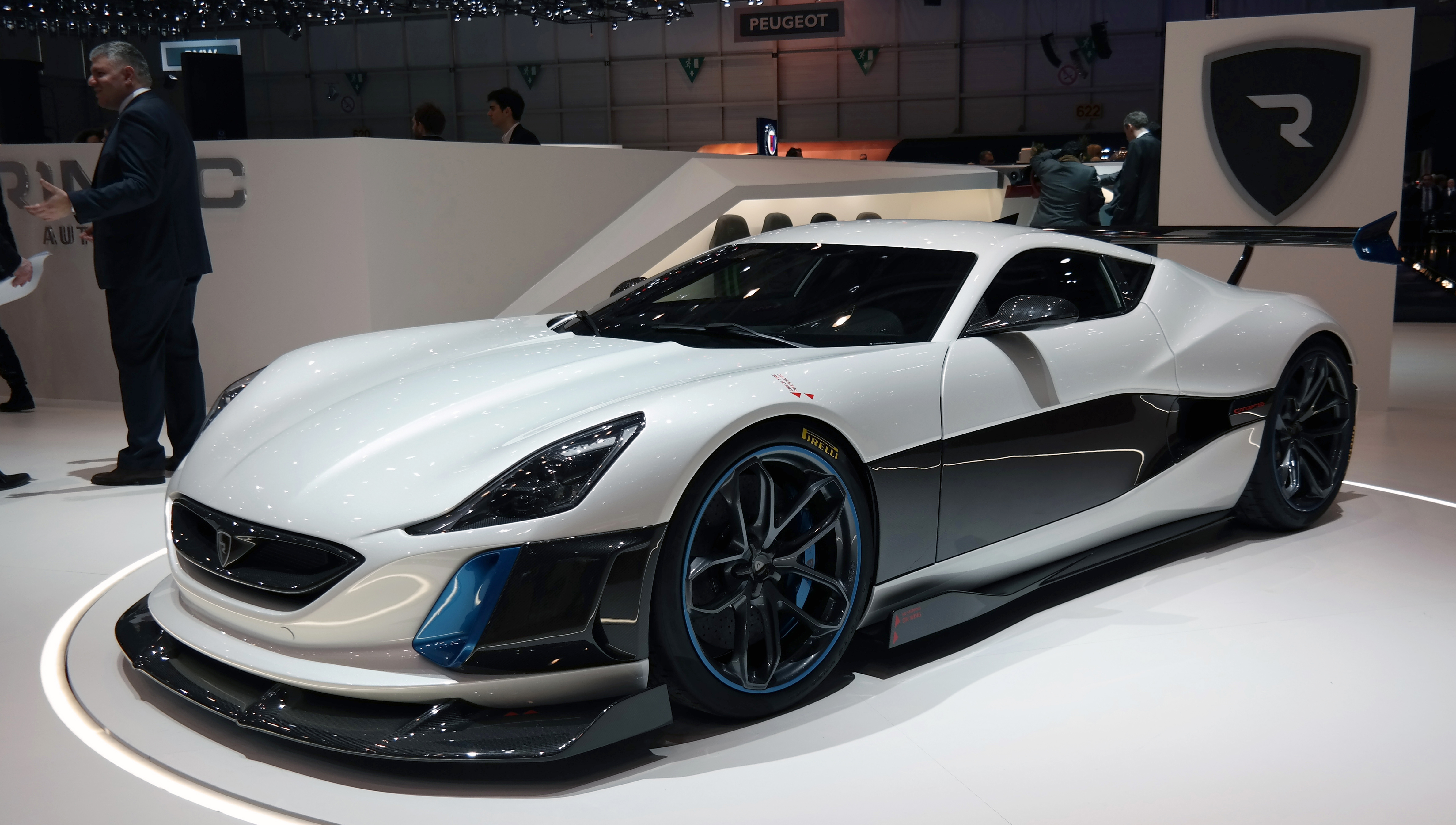 Geneva Motor Show 2016 (photo taken on the first press day)